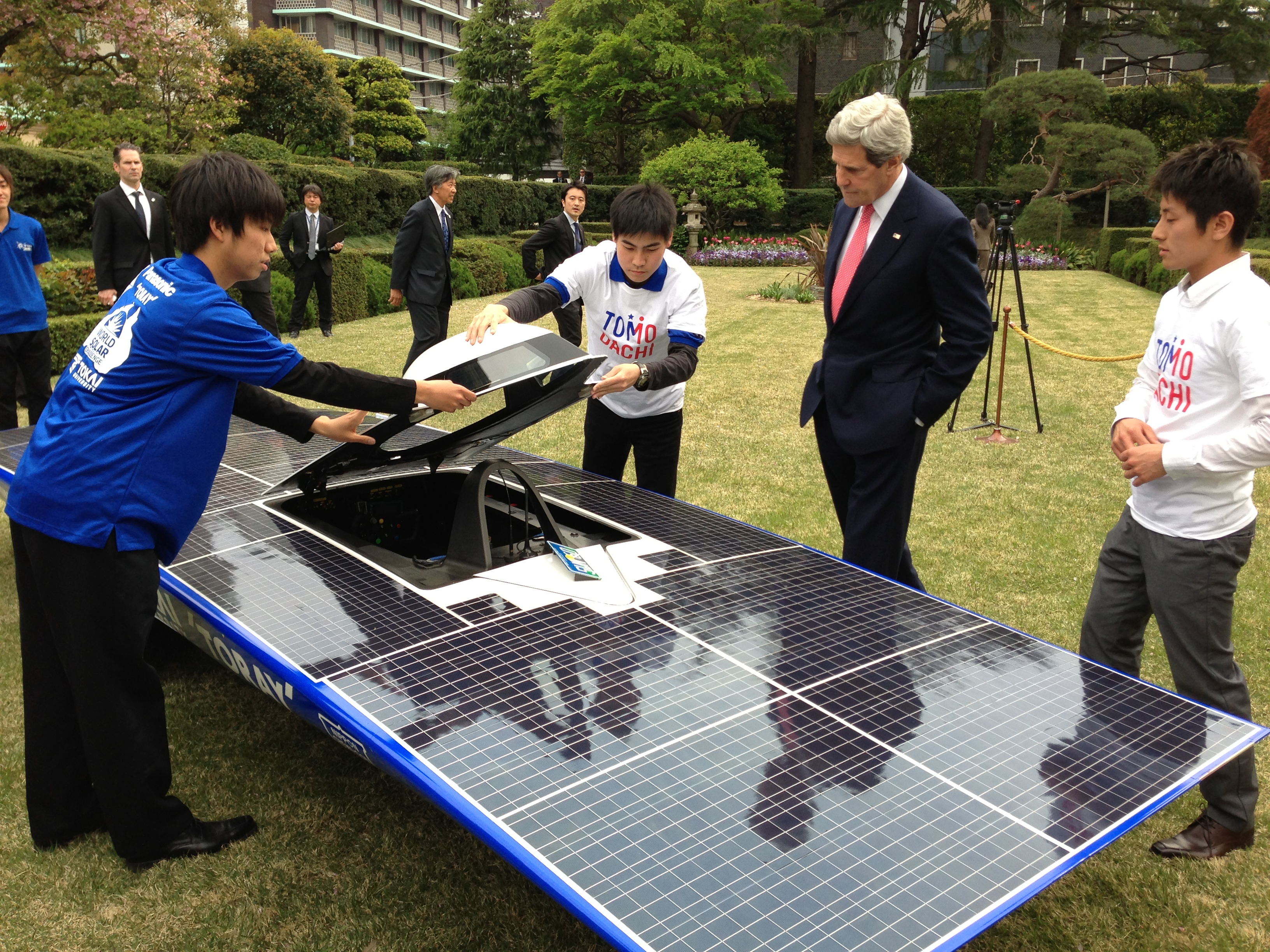 U.S. Secretary of State John Kerry admires a solar-powered car built by members of the Tomodachi Initiative youth engagement program in Tokyo, Japan, on April 14, 2013. [State Department photo/ Public Domain]